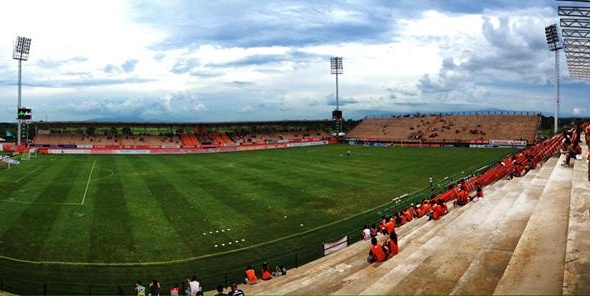 Chiangrai Stadium (United Stadium, Thailand)